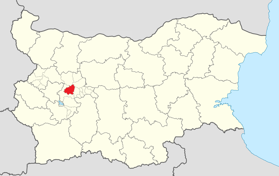 Location map of Gorna Malina Municipality within Bulgaria and Sofia province